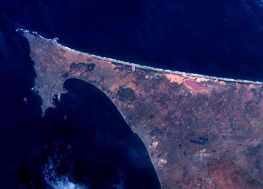 Cropped version of Image:STS054-94-32 rotated 180 degrees.jpg Cap Vert peninsula / Dakar NASA Image Science and Analysis Laboratory, NASA-Johnson Space Center. 22 Nov. 2004. "Cities Collection: Dakar, Senegal." (27 Dec. 2005). Send questions or comments to the NASA Responsible Official at Curator: Earth Sciences Web Team Notices: Web Accessibility and Policy Notices Last Update: 22 Nov. 2004